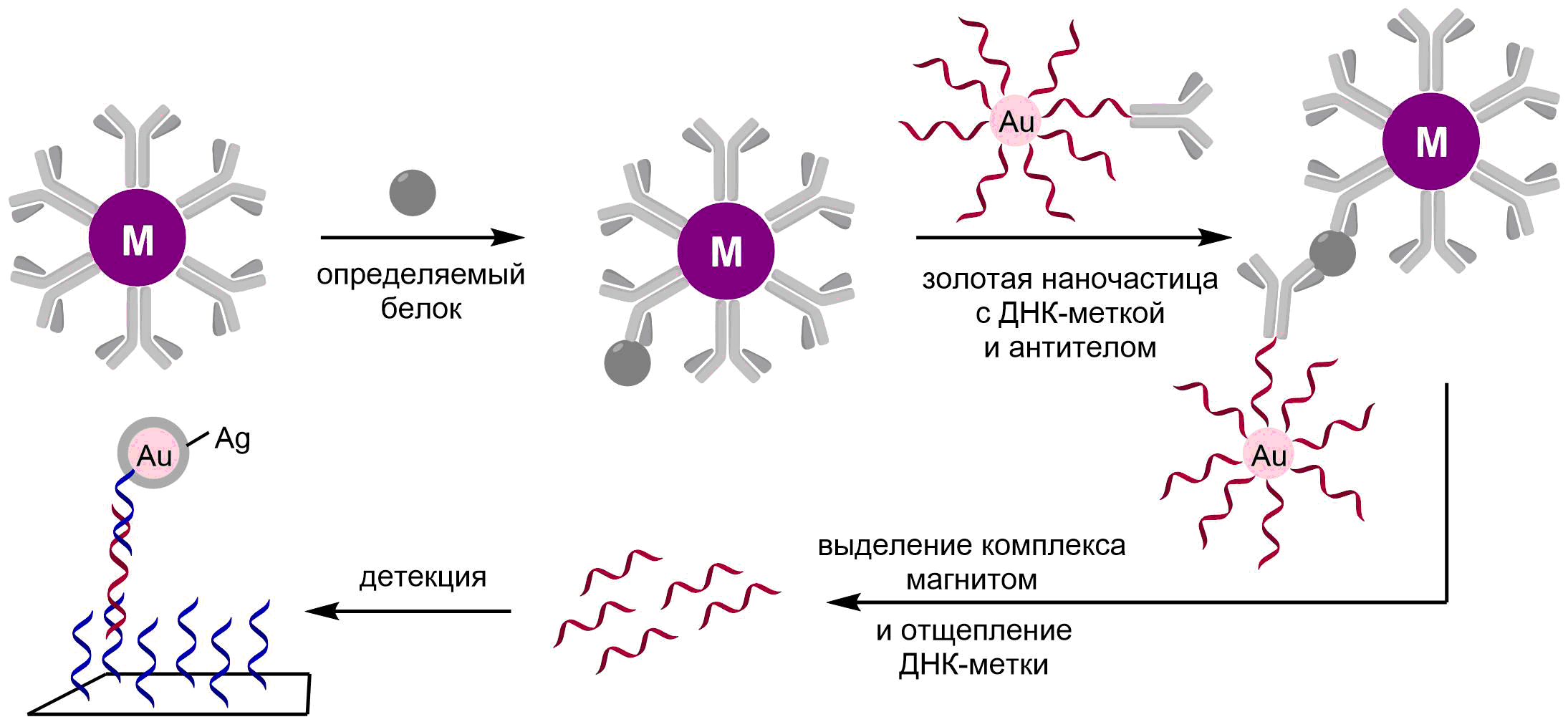 Biobarcode assay